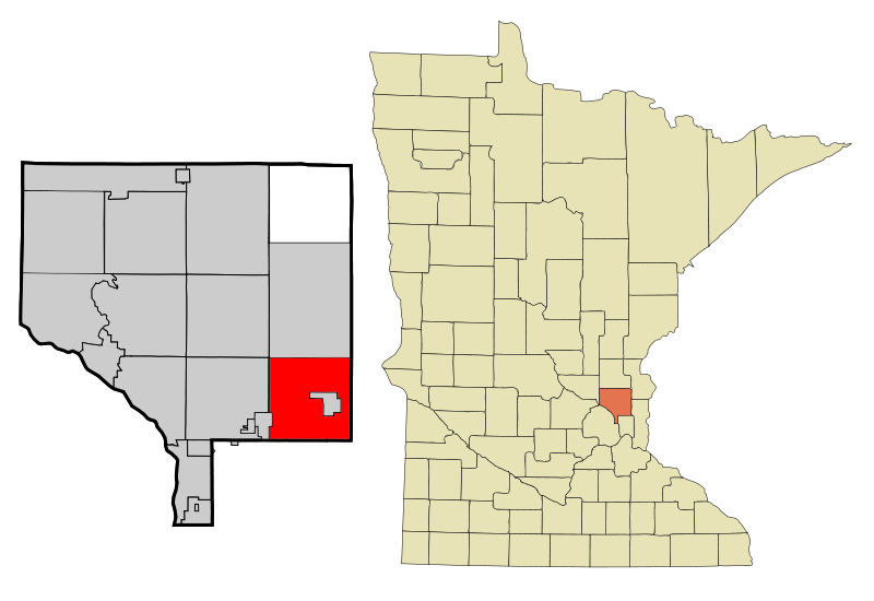 This map shows the incorporated and unincorporated areas in Anoka County, highlighting Lino Lakes in red. This file has been updated to reflect the recent incorporation of new municipalities.